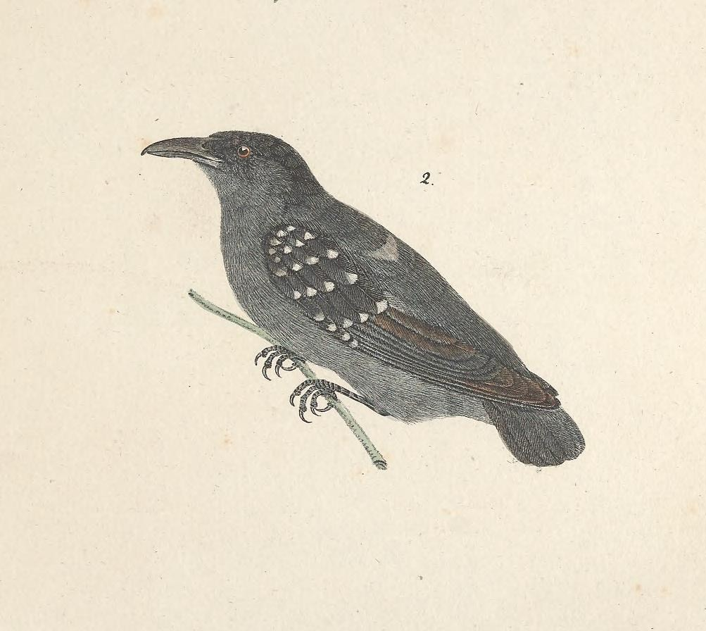 Avium species novae, quas in itinere per Brasiliam annis MDCCCXVII-MDCCCXX /. Monachii :Typis Franc. Seraph. Hübschmanni,1824-1825..